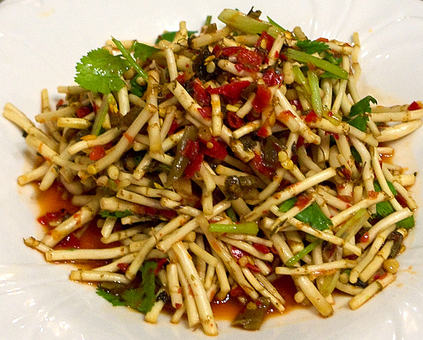 Roots of the plant Houttuynia cordata, known as 'fishy-smell-herb' in China where it is prepared as a vegetable. Here served as a dish with spices in a restaurant of Kaili, Guizhou province, China.